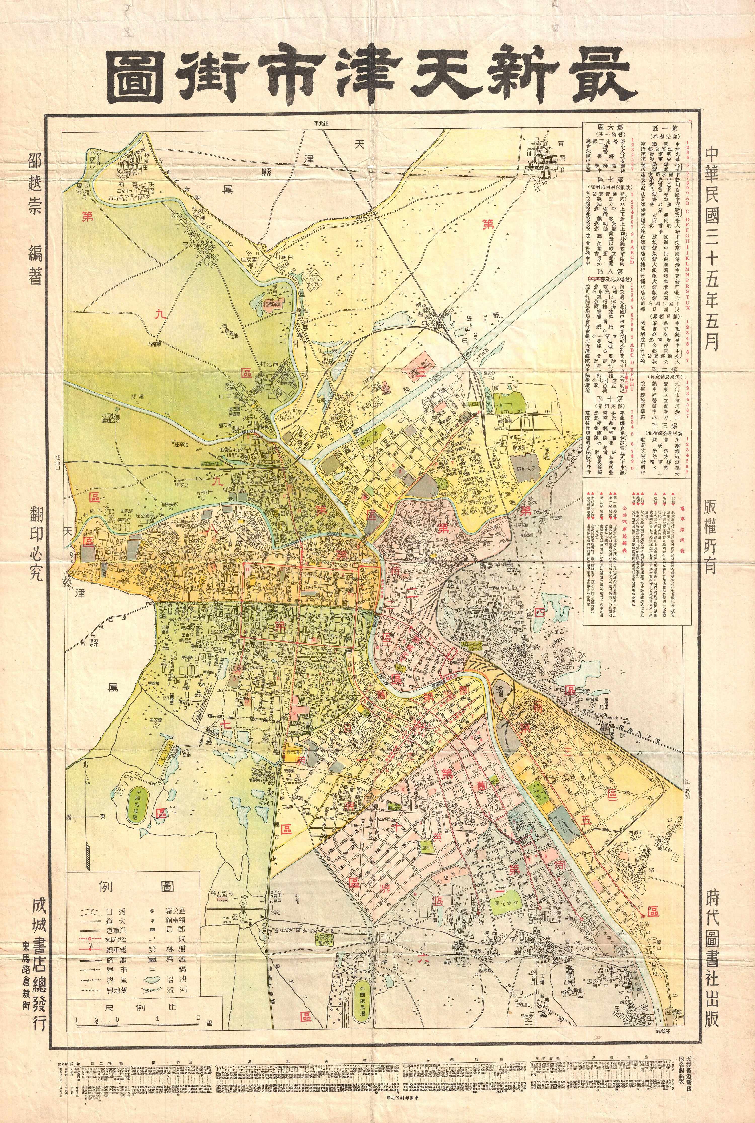 A highly uncommon map of Tianjin (Chinese: ??; pinyin: Tianjin; Wade-Giles: T'ien-chin; [t?i??n?? t??in??]; Postal map spelling: Tientsin), China dating to 1932. Tientsin was a major trading center in Northern China and, like Shanghai, had administrative concessions to several foreign nations including England, Italy, France, Austria-Hungary, Belgium, Japan, Germany and Russia. Curiously none of the foreign concessions are noted on this map, suggesting it was issued by an isolationist anti-trade element. It does however identify streets, rail lines, administrative buildings, parks, and public centers. All text in Chinese.